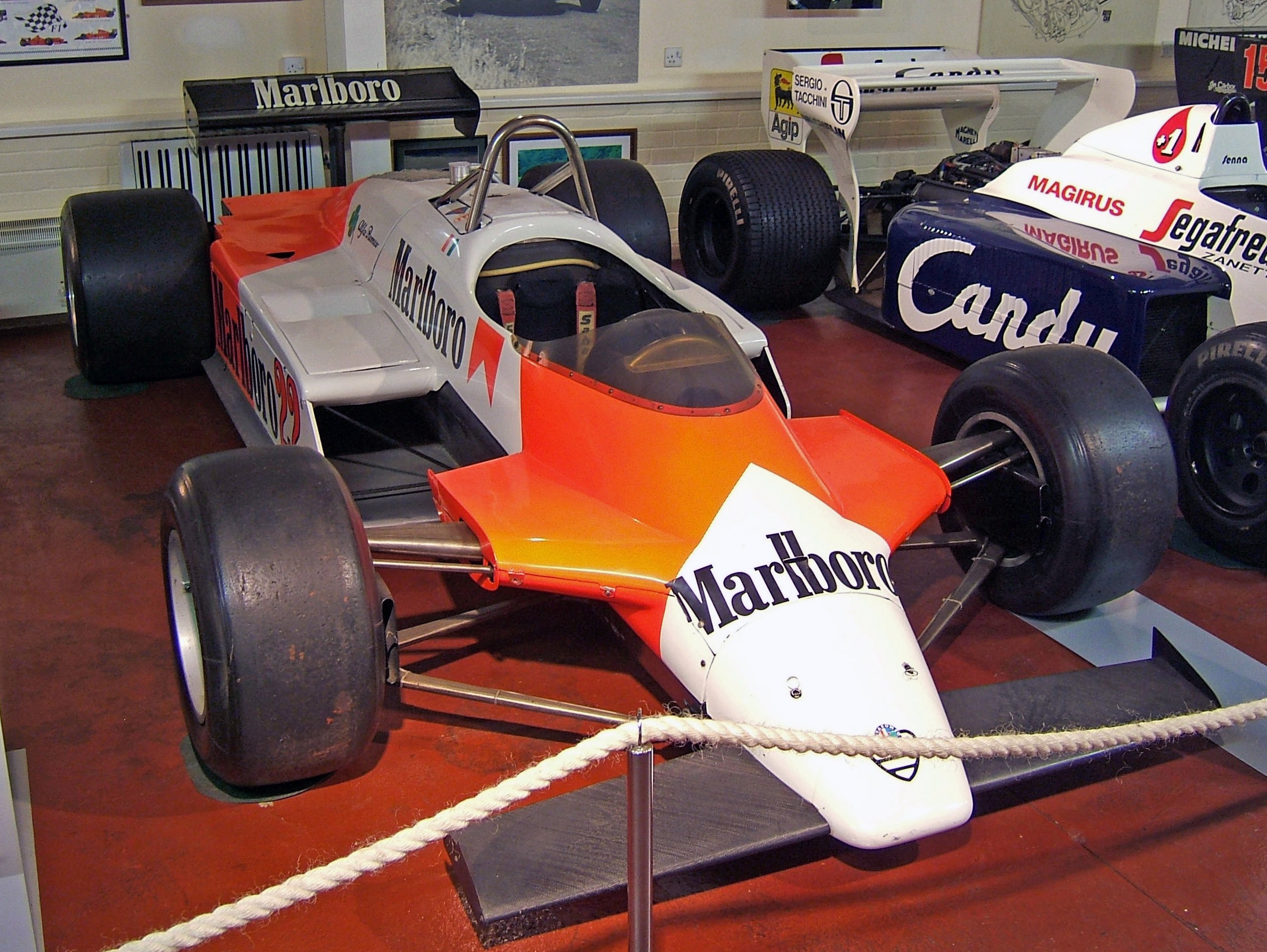 1980 Alfa Romeo Tipo 179 Formula One car in the Donington Grand Prix Collection museum, Leics., UK.